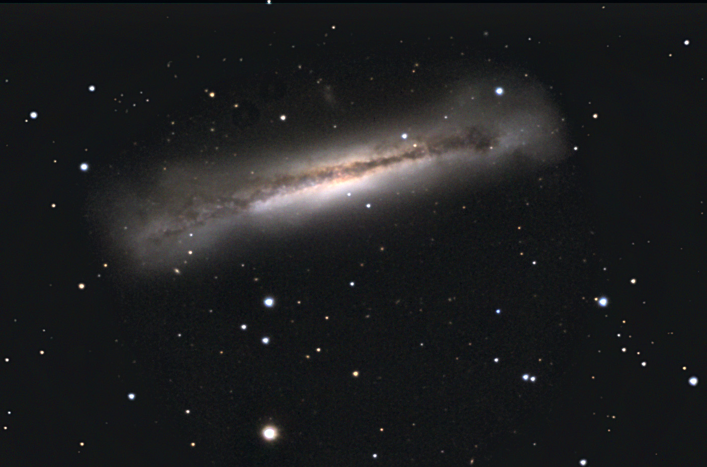 NGC3628 Spiral Galaxy in Leo 11H20',+13°36') At 35.000.000 yl distant, this galaxy belong to the M66 - M65 group. a huge dust band is twisted because of attractions forces between them and dark it. 80'Luminance - 20'RGB- Bin.2X2 - STL11K - C14